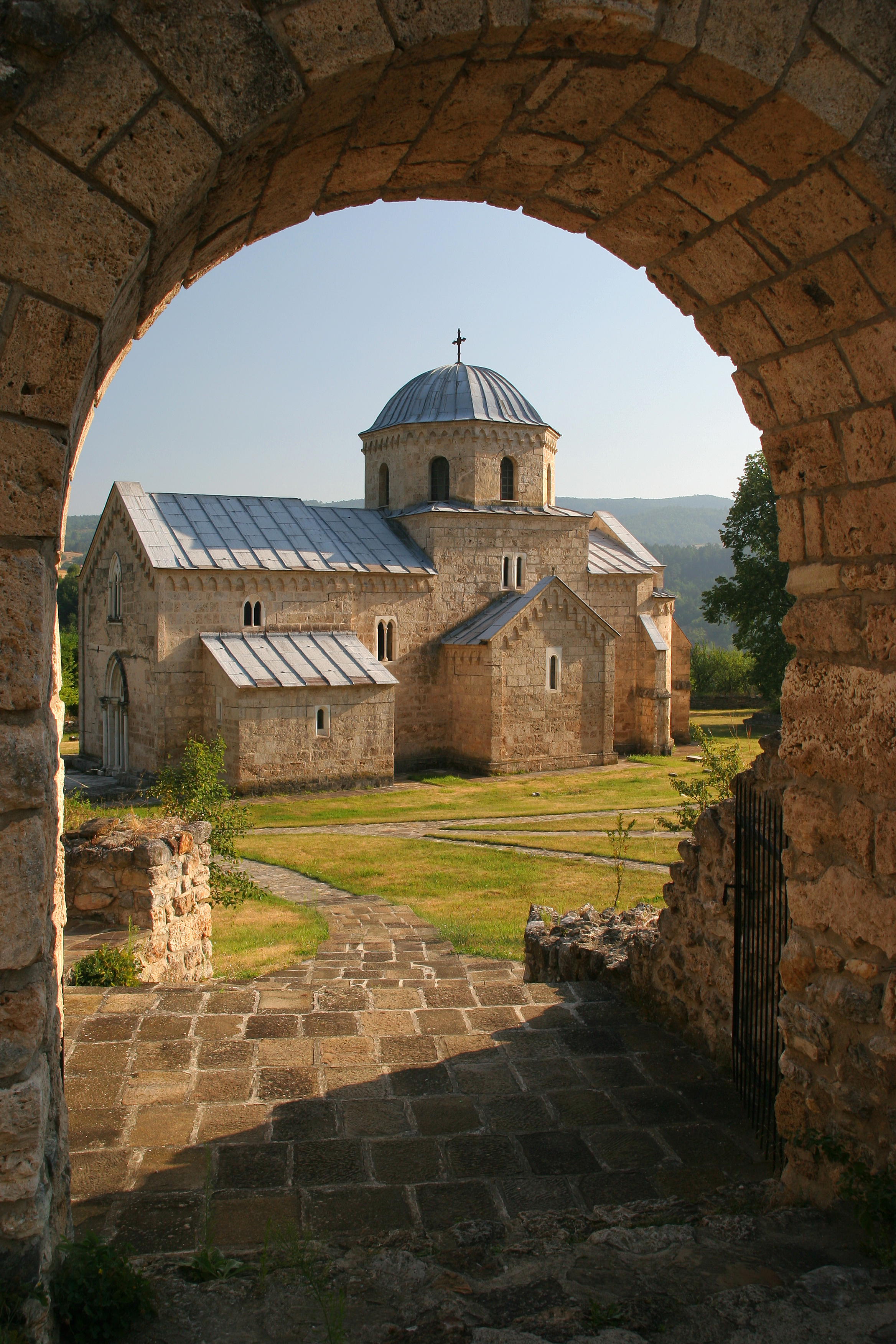 Gradac Monastery